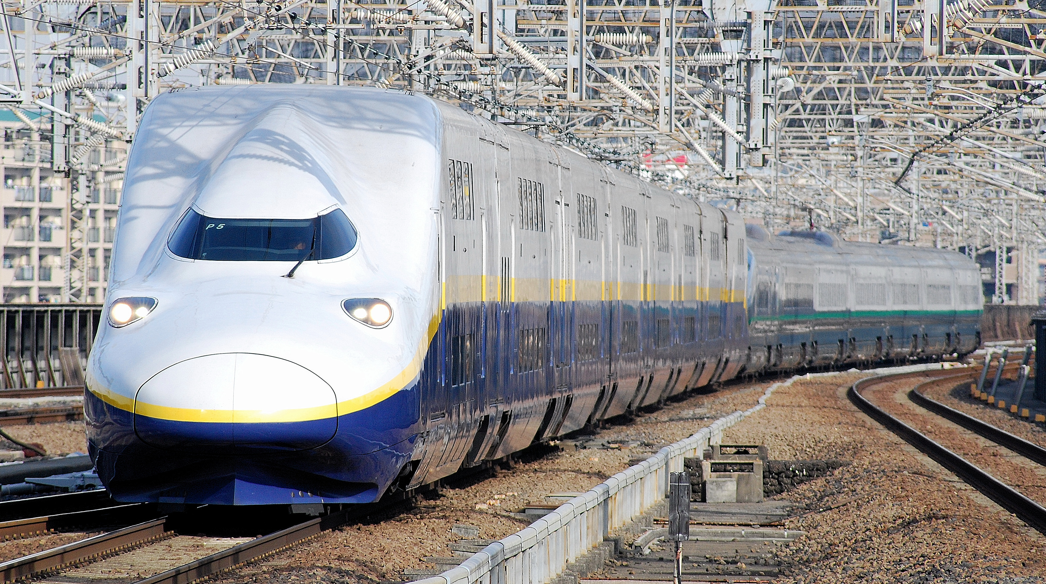 JR East E4 series shinkansen set P5 together with an E3-1000 series Tsubasa 7-car set approach Omiya Station on an up service